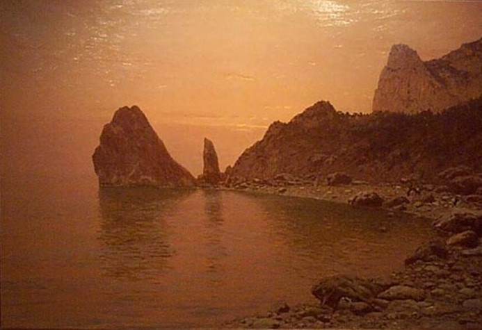 Seascape. (In the vicinity of Alupka). 1897. Oil on canvas and paper. 93.5 x 133 cm Plyos State Historical and Architectural Museum-Reserve, Plyos, Volga Federal District, Ivanovo Oblast, Russian Federation